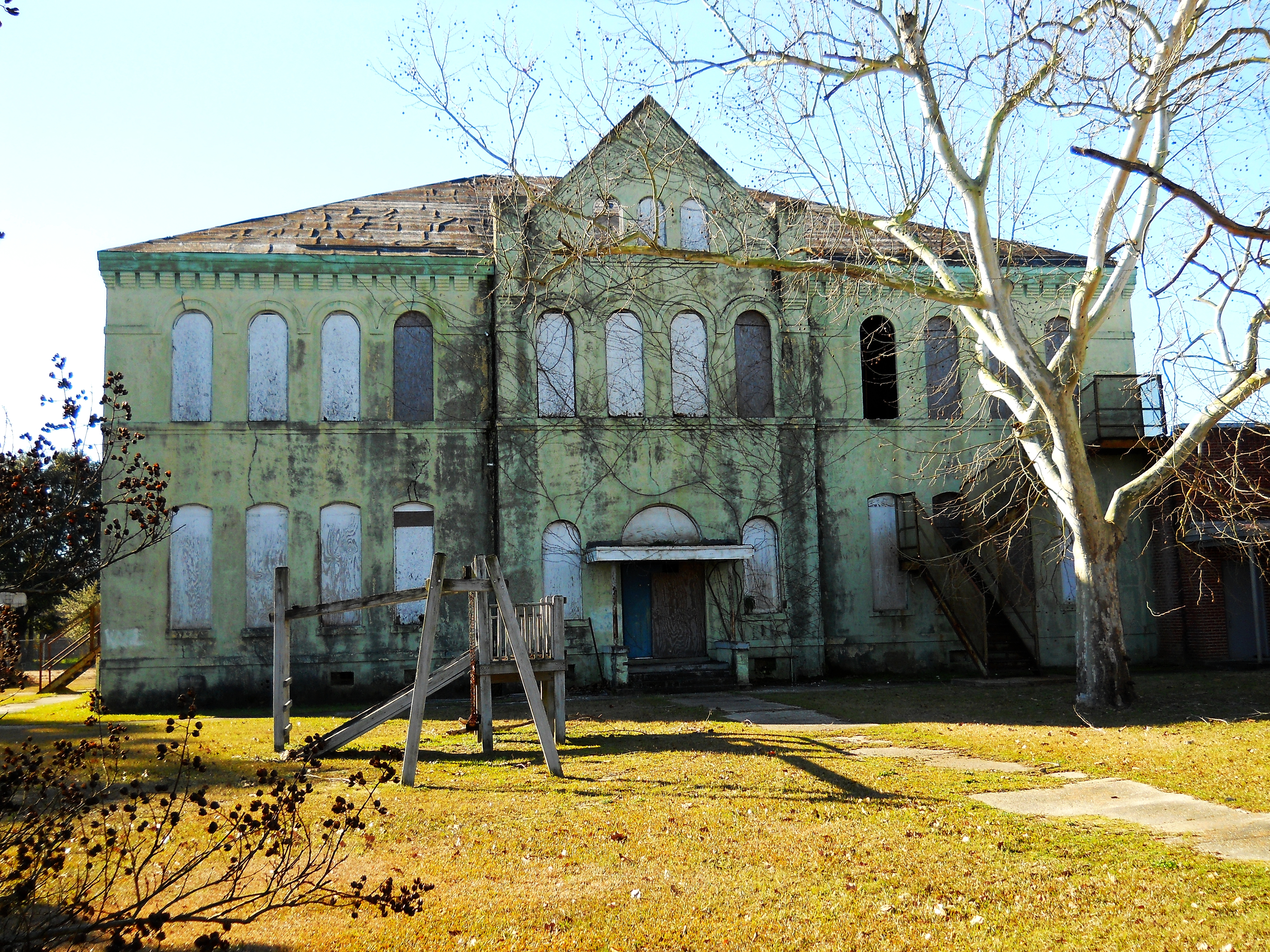 Eaton Elementary School (also known as Third Ward School), Hattiesburg, Forrest County, Mississippi, USA. Constructed in 1905 in Romanesque Revival architectural style. Added to National Register of Historic Places 2008-07-16.